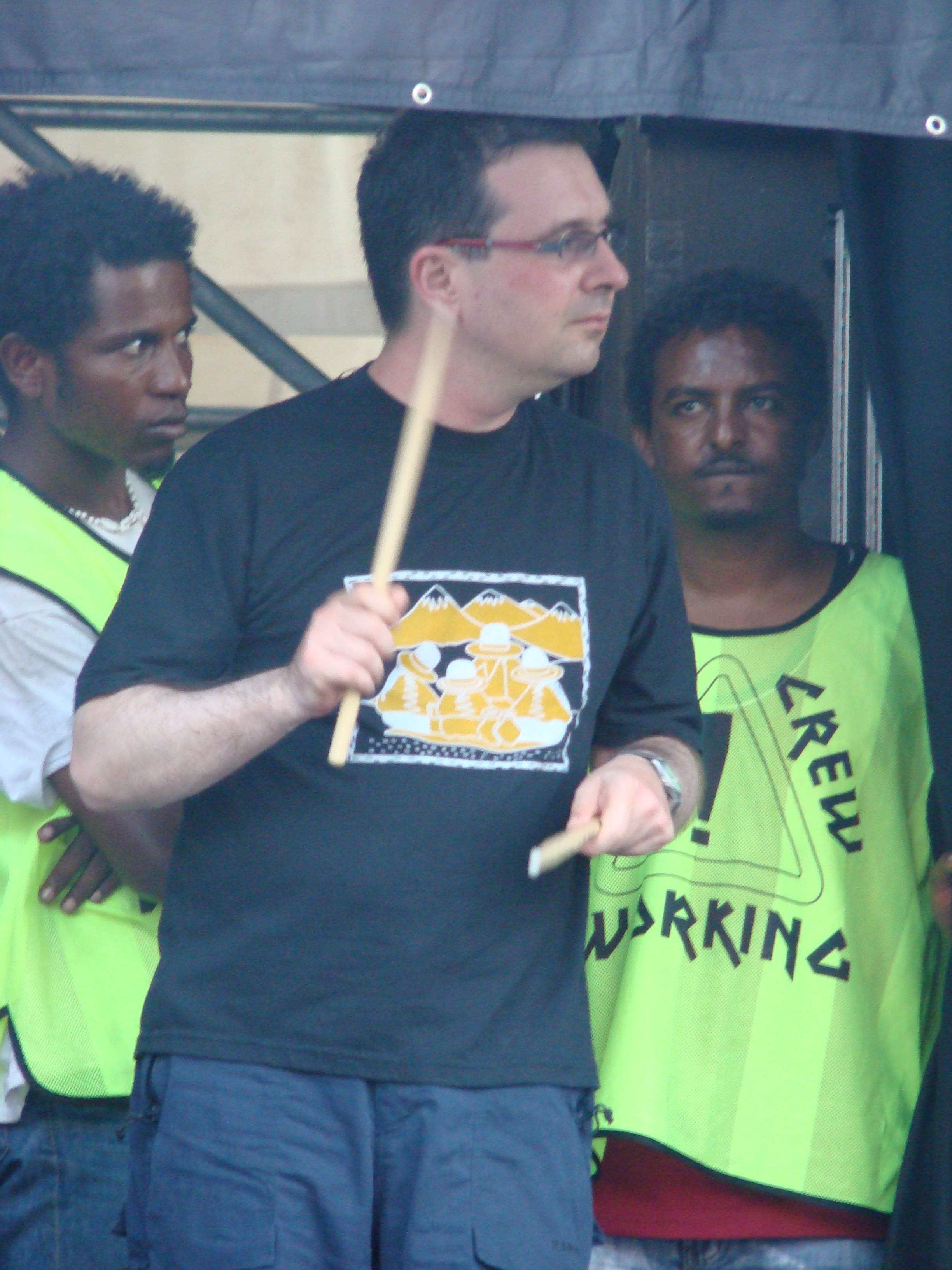 Ken Owen, former drummer of Carcass.